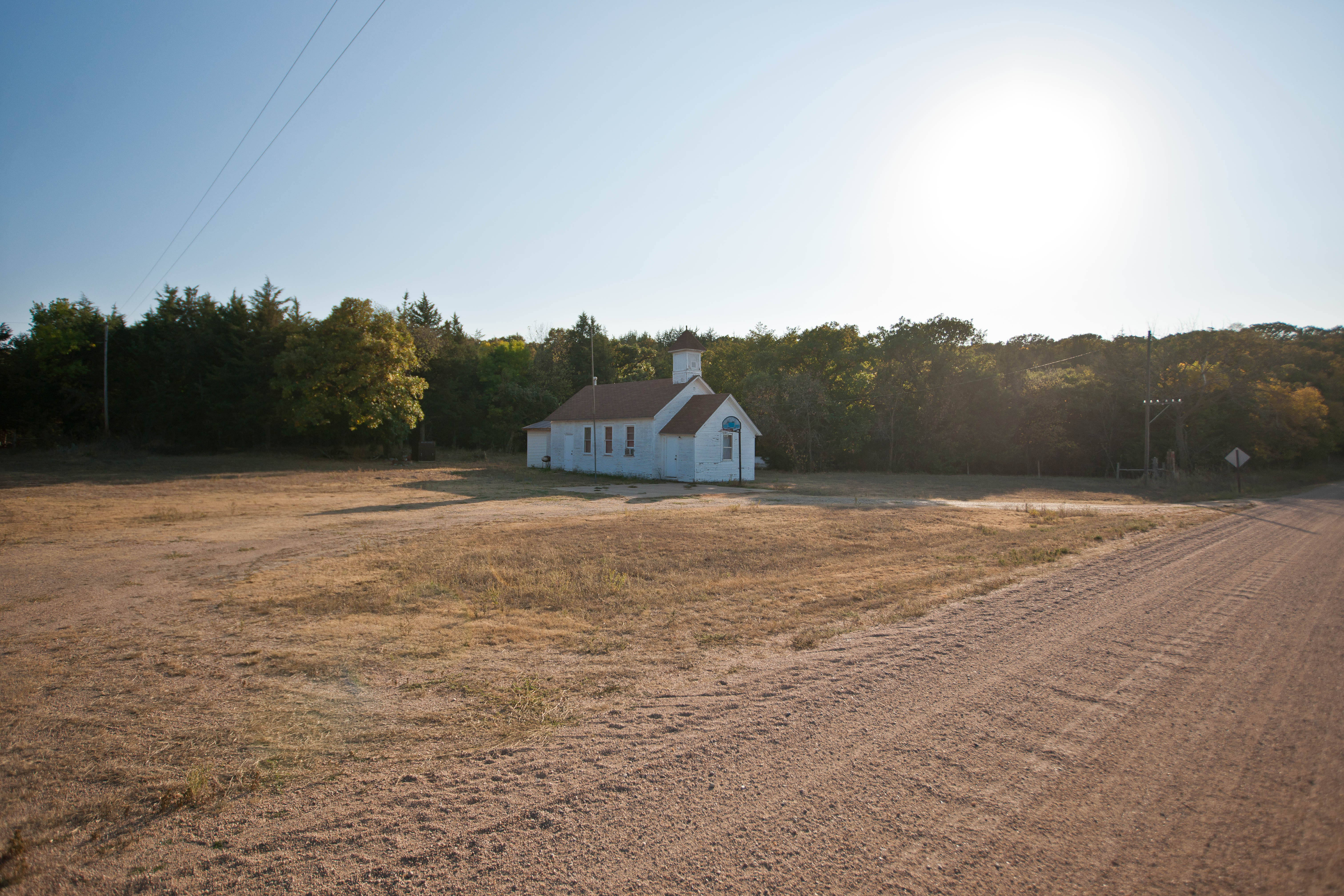 From